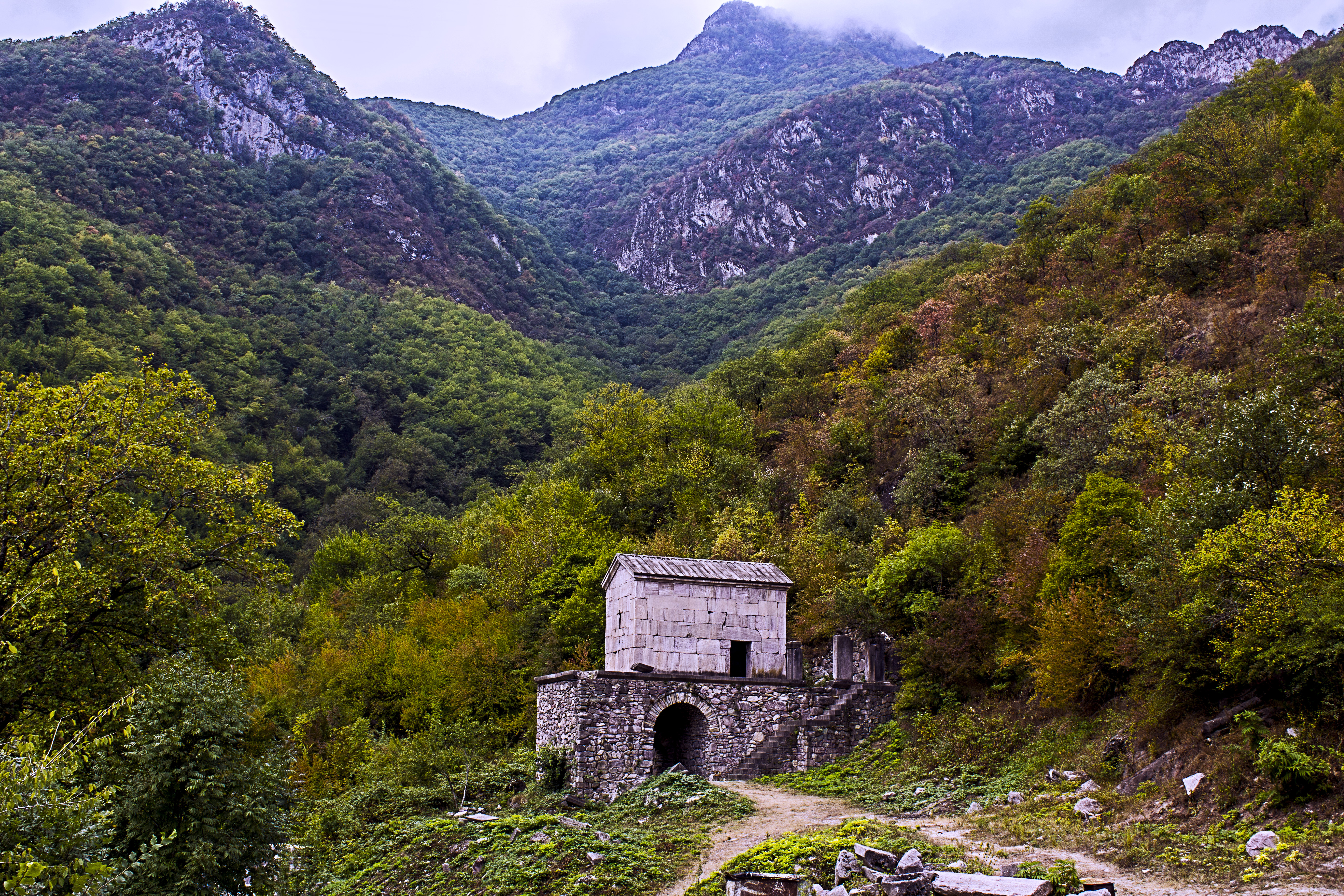 Holy Mother of God church builtin in 1086 by queen Shahandukht, Vahanavank Monastery, Kapan, Syunik Province, Armenia. 1/9.7.7